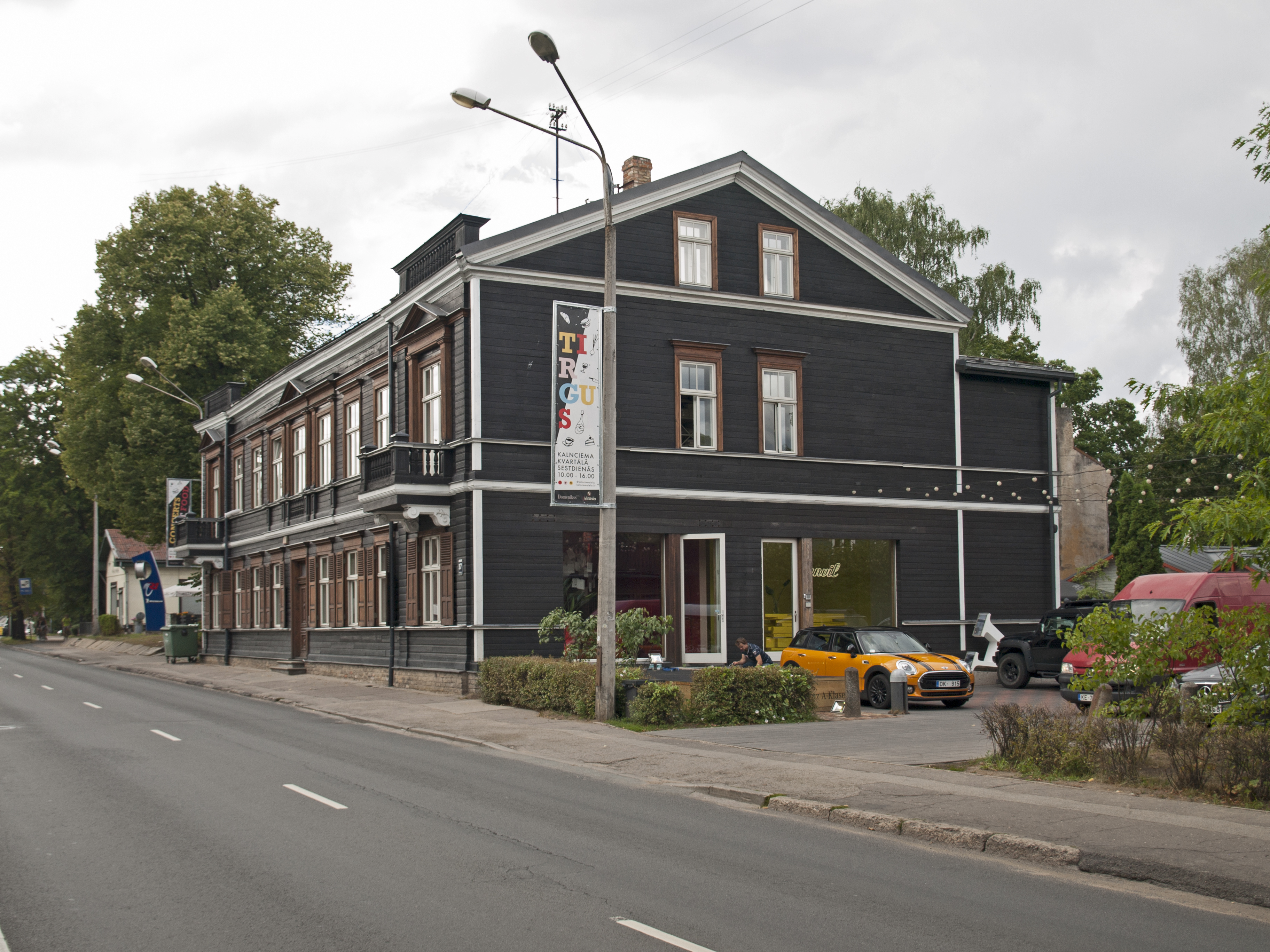 Kalnciema iela 37